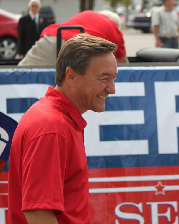 Rick Berg shakes hands with voters at the West Fest parade in West Fargo, North Dakota, on 15 September 2012.